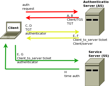 Kerberos function scheme